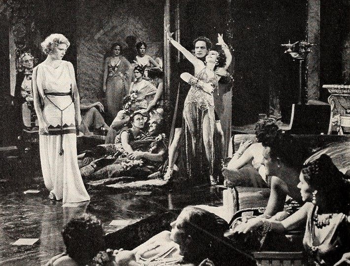 Scena del film The Sign of the Cross, Elissa Landi, Fredric March, Joyzelle Joyner.